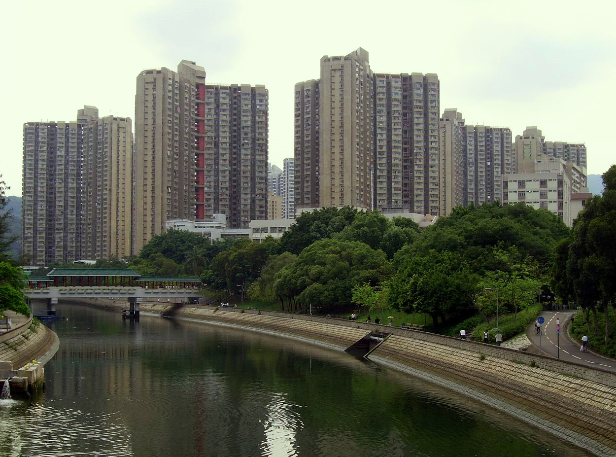 Tai Wo Estate. 中文（香港）: 太和邨。